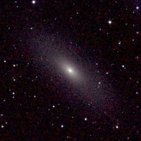 Galaxy NGC 5102